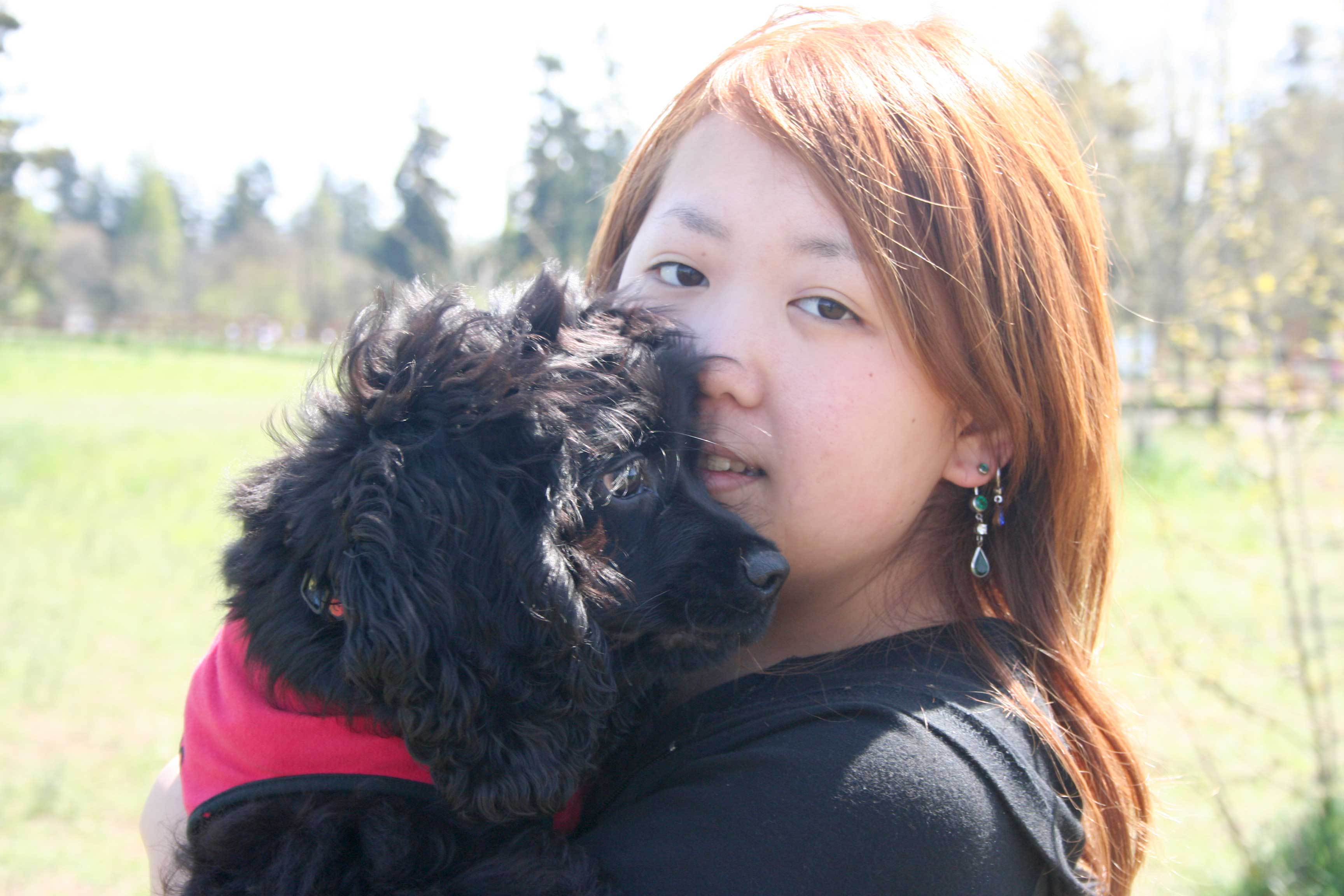 An owner holding her black American Cocker Spaniel.